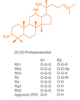 โครงสร้างทางเคมีของจินเซนโนไซด์ในกลุ่มของ Protopanaxadio